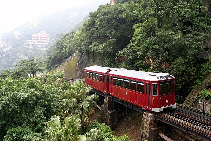 For more pictures and videos of Hong Kong, please visit here.